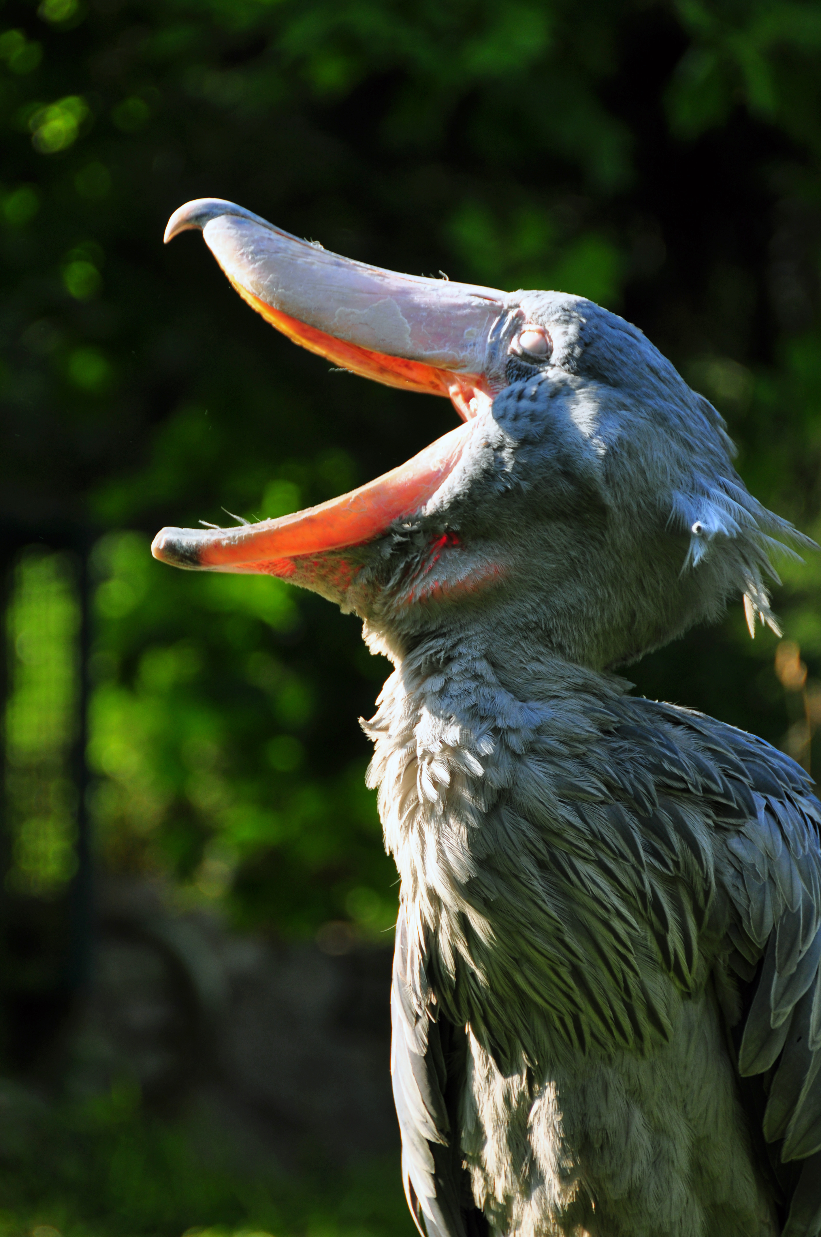 Yawning Shoebill (Balaeniceps rex) at Weltvogelpark Walsrode (Walsrode Bird Park, Germany)